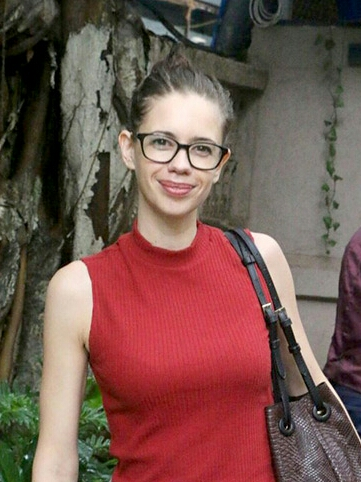 Kalki Koechlin at movie screening in Mumbai, 2017.